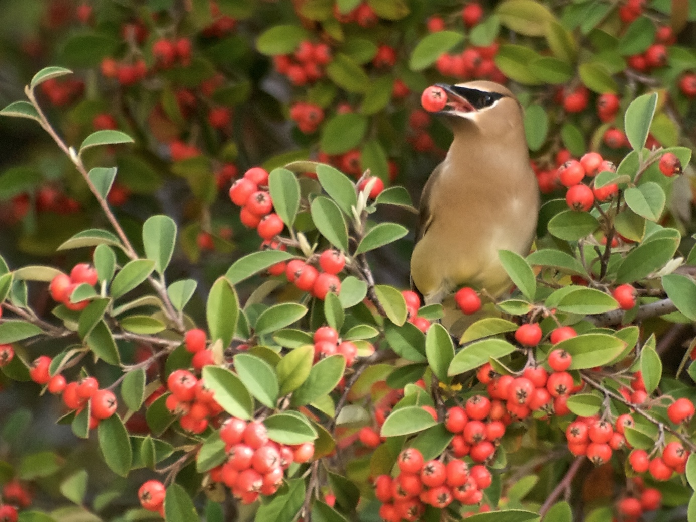 Cedar Waxwing (Bombycilla cedrorum) eating whole pyracantha berries. This was taken at full extension on my 70-300mm lens, cropped quite a bit. They don't like me close while they're eating.